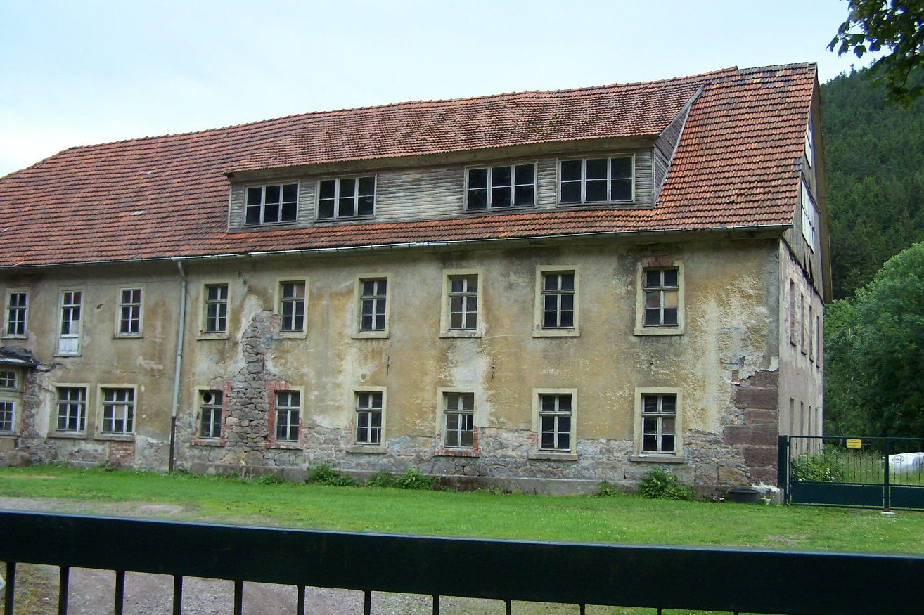 An old mill building in Luisenthal.